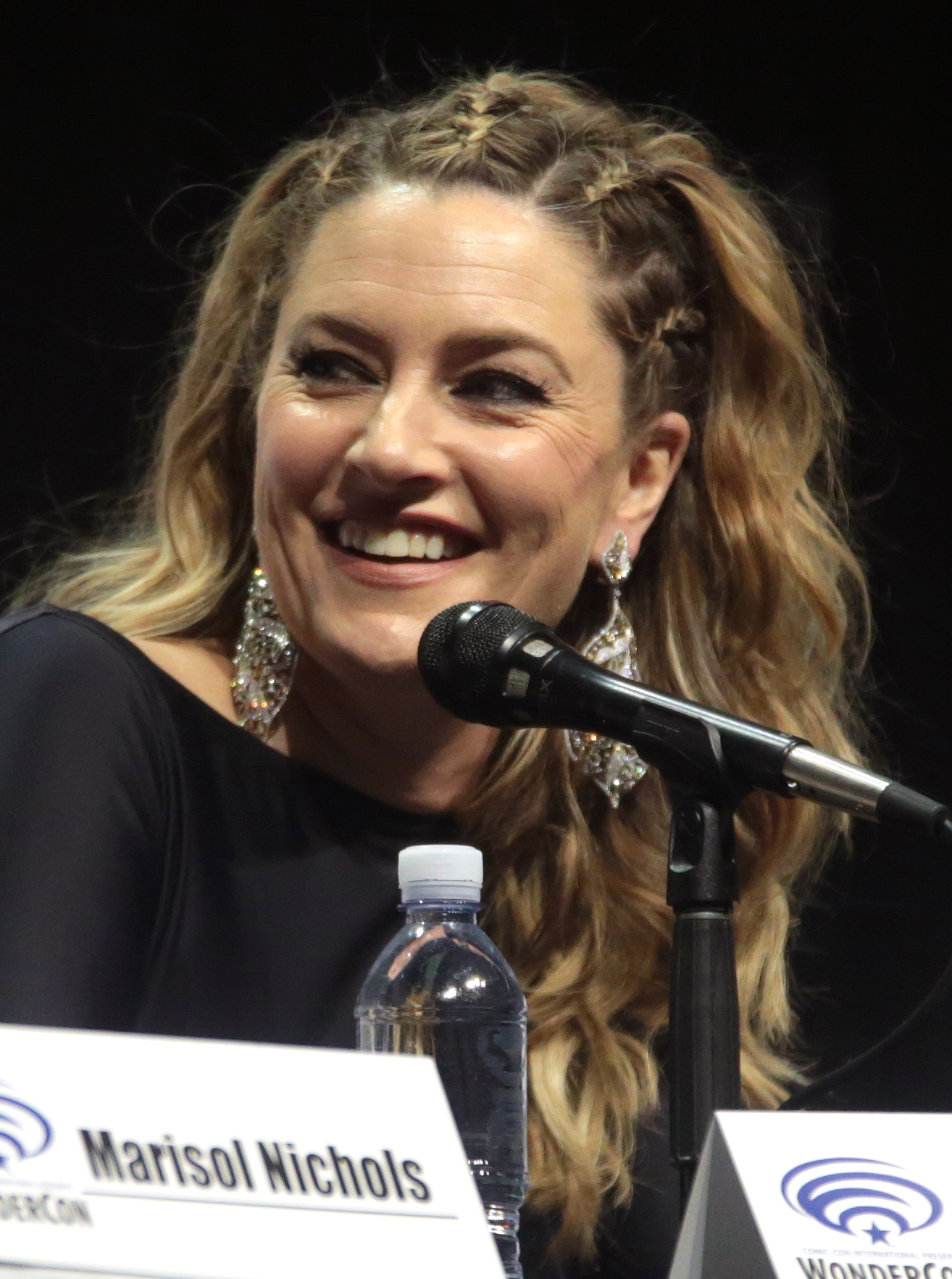 Madchen Amick speaking at the 2017 WonderCon in Anaheim, California.